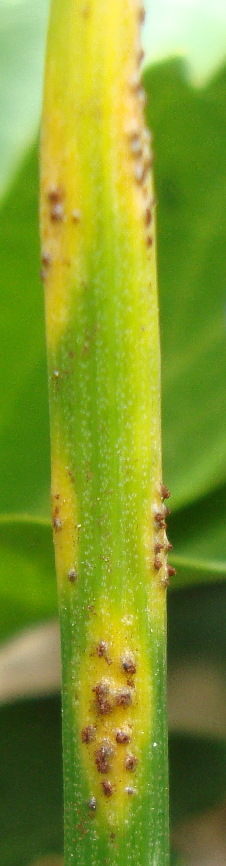 Sinle leaf of Ornithogalum umbellatum infected with Puccinia liliacearum, close up of the telia